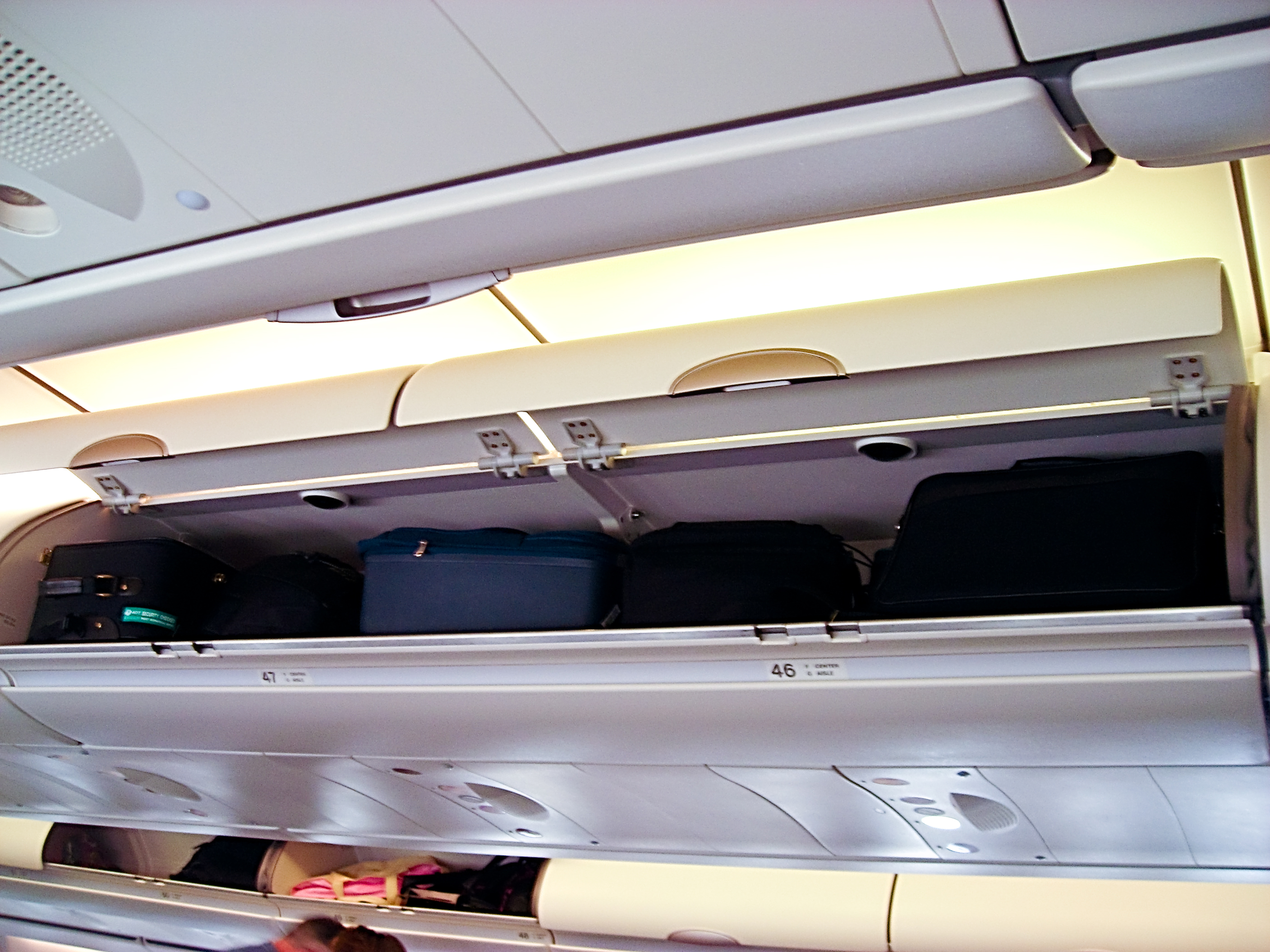 Luggage compartments of an Airbus 340-600 aircraft (economy class).